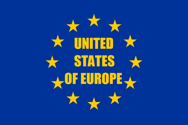 United States of Europe